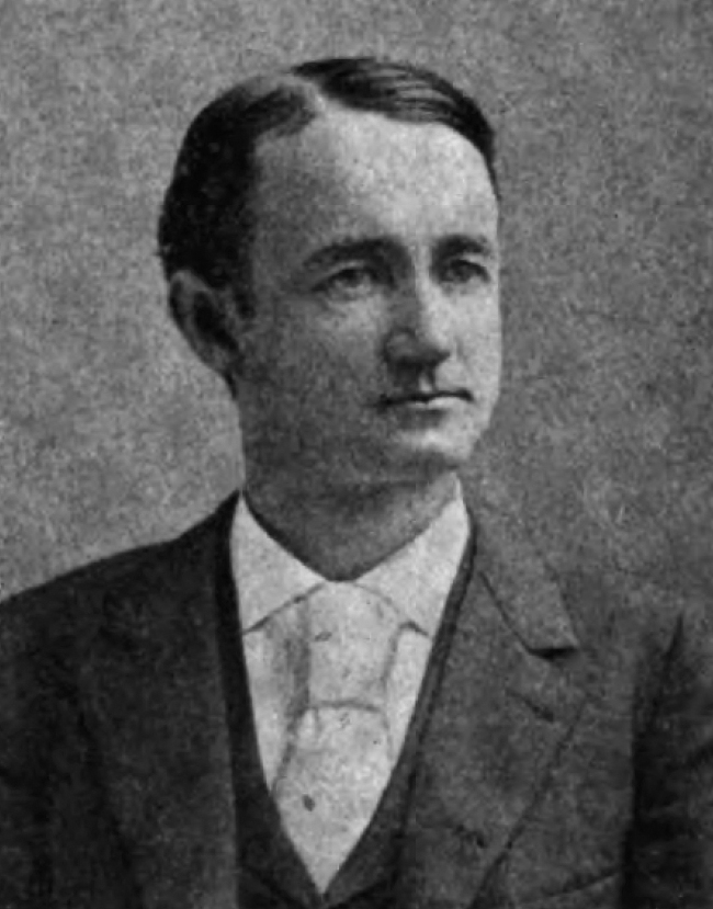 Kentucky Congressman Joseph M. Kendall